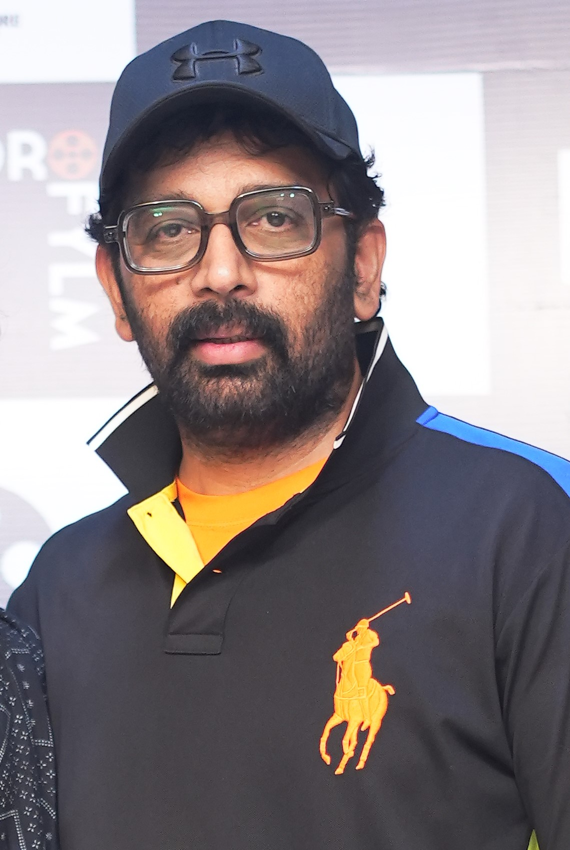 telugu